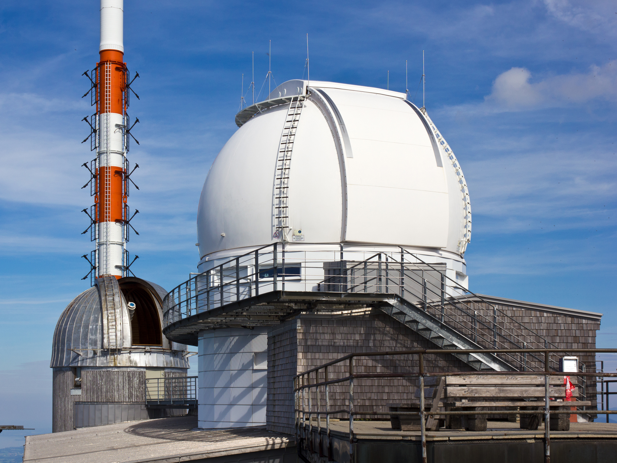 Two domes of the Wendelstein observatory. The 8.5 m dome in the foreground houses the Fraunhofer Telescope, a 2.0 m reflector, installed in 2011. The older dome in the background houses a 0.2 m Solar Telescope, which is no longer used for scientific observations, though it is still used for education and outreach purposes.